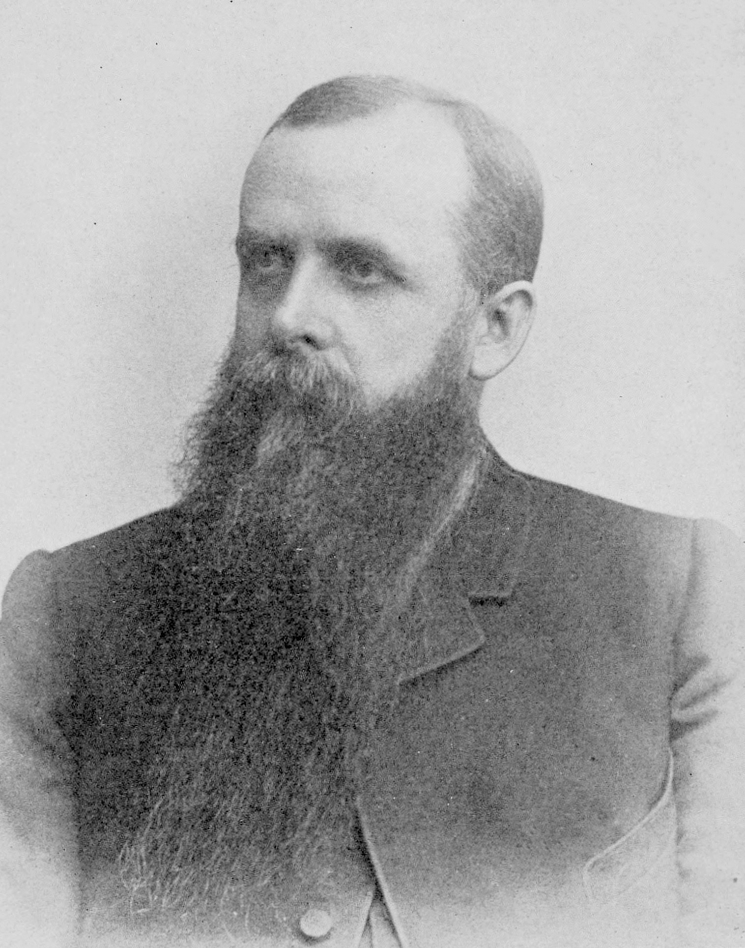 Ohio politician named John C. Brown